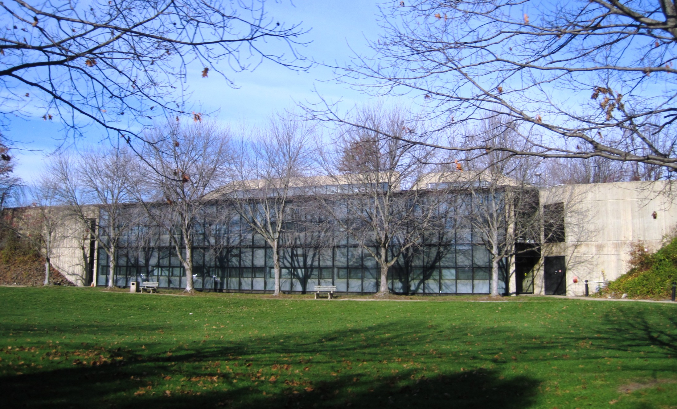 Town hall of East Windsor Township, New Jersey as seen from its parking lot looking northwest. The building completed in the early 1980s uses an earth sheltering technique to reduce energy costs.